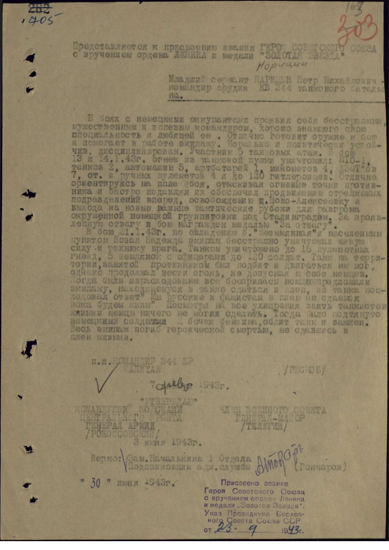 Pyotr Noritsyn award nomination.